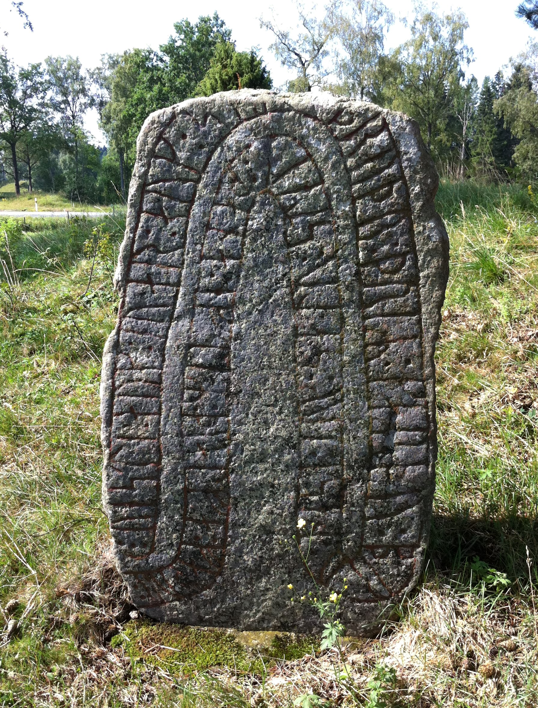 Runestone Sm 80 from Vallsjö, Sweden